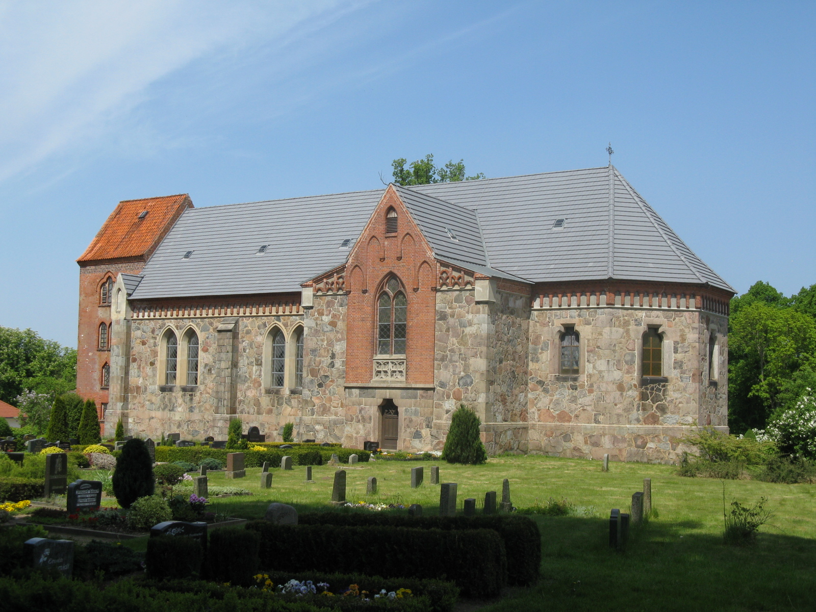 Church in Camin, district Ludwigslust, Mecklenburg-Vorpommern, Germany